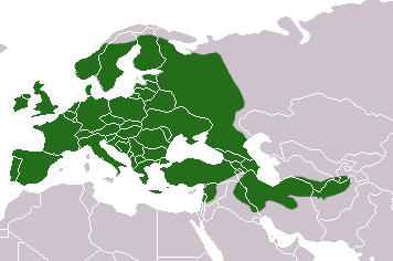 European Badger (Meles meles) range